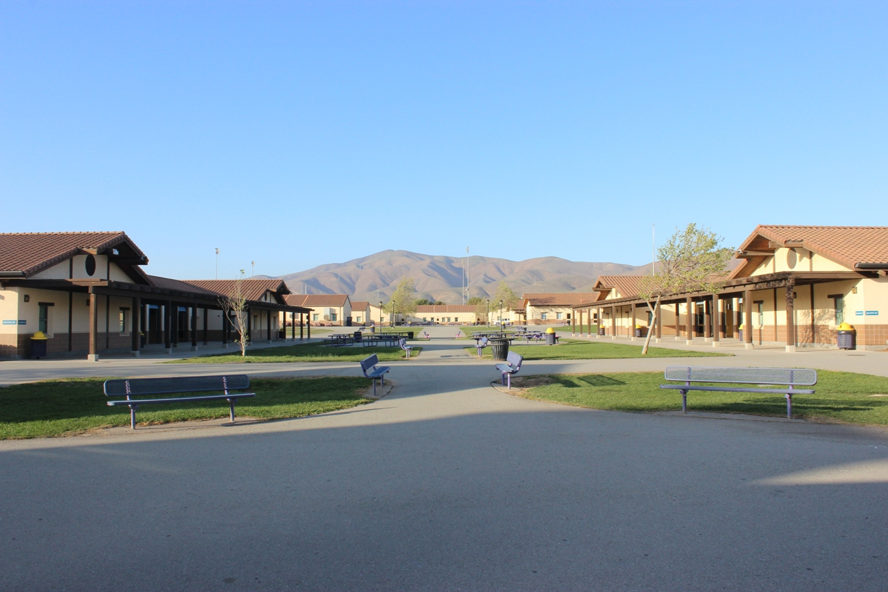 Inside of Soledad High School